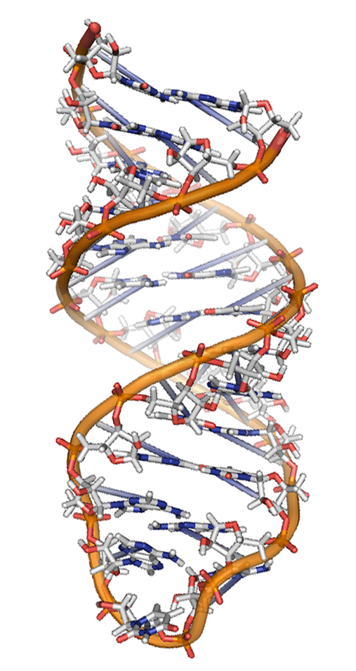 Solution structure of the central region of the human GluR-B R/G pre-mRNA